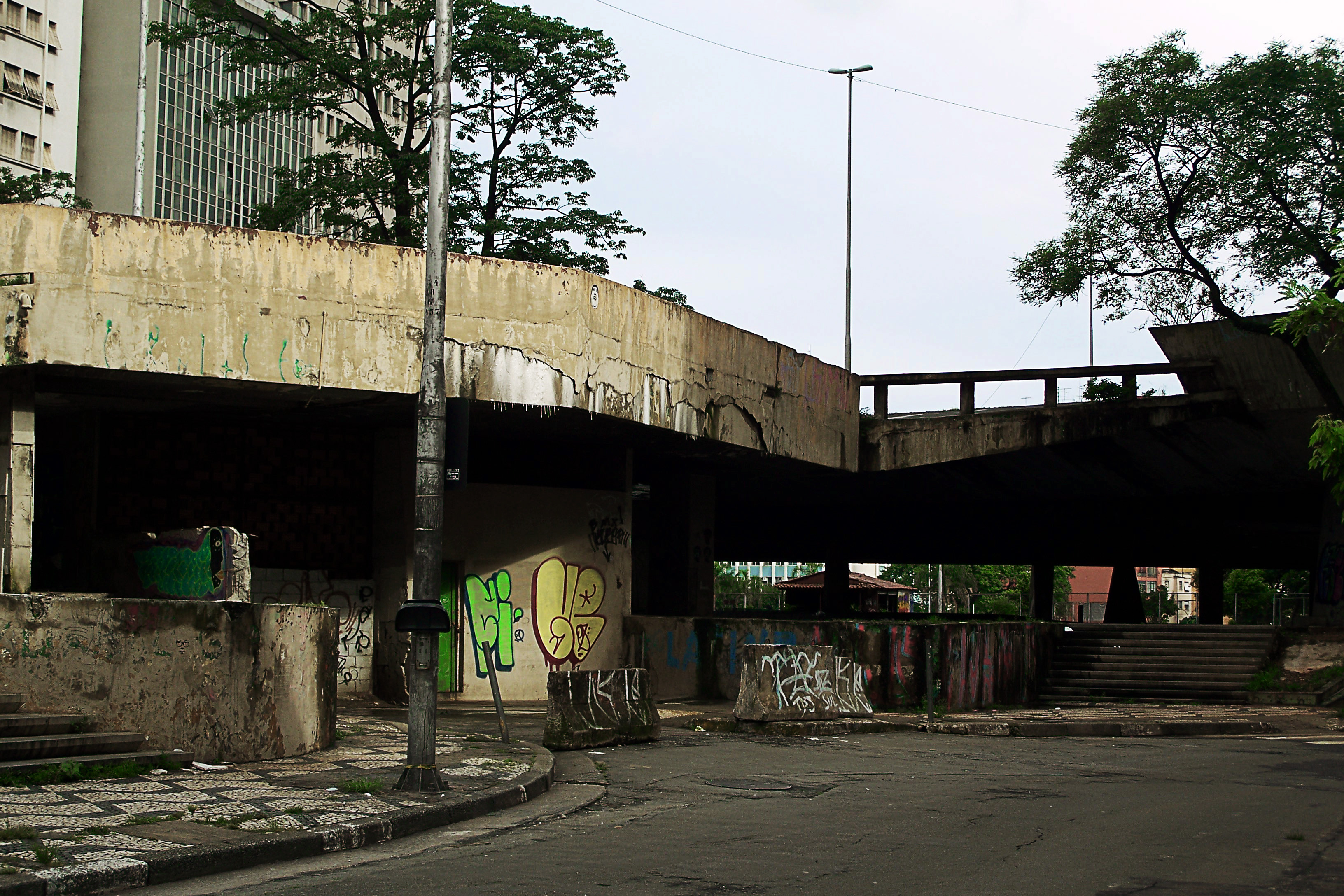 "Praça do Pentágono" structure at Praça Roosevelt, in São Paulo, Brazil.